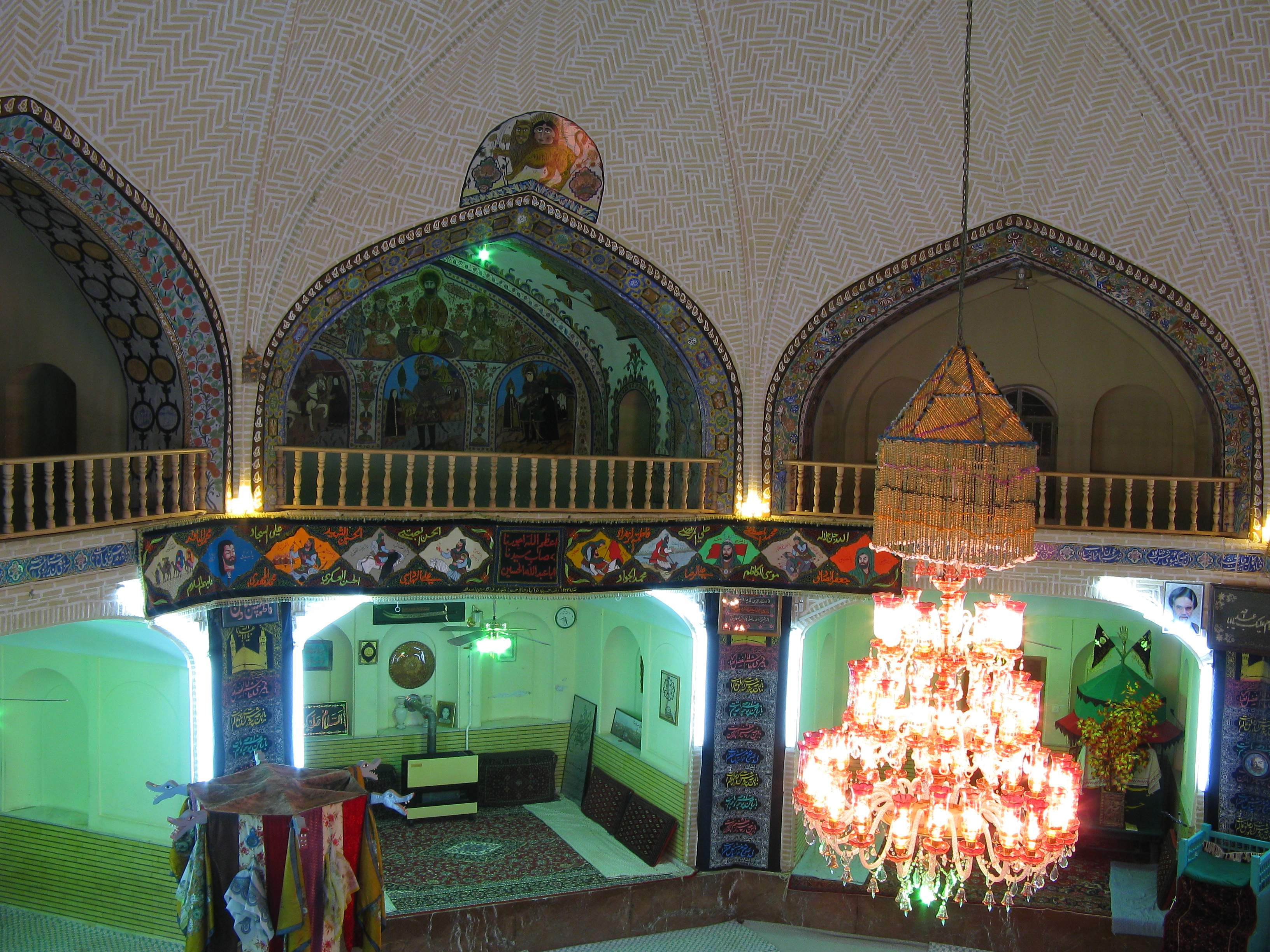 حسينيه نوآباد